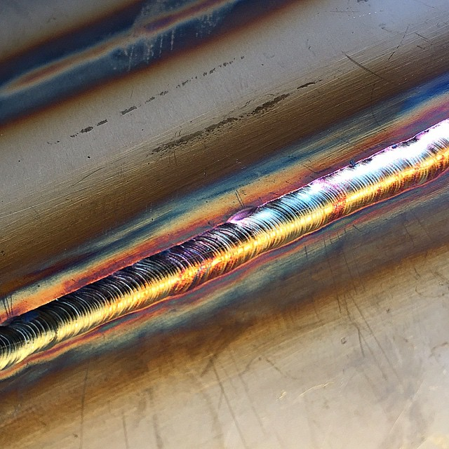 Lap weld joints of stainless steel by TIG welding